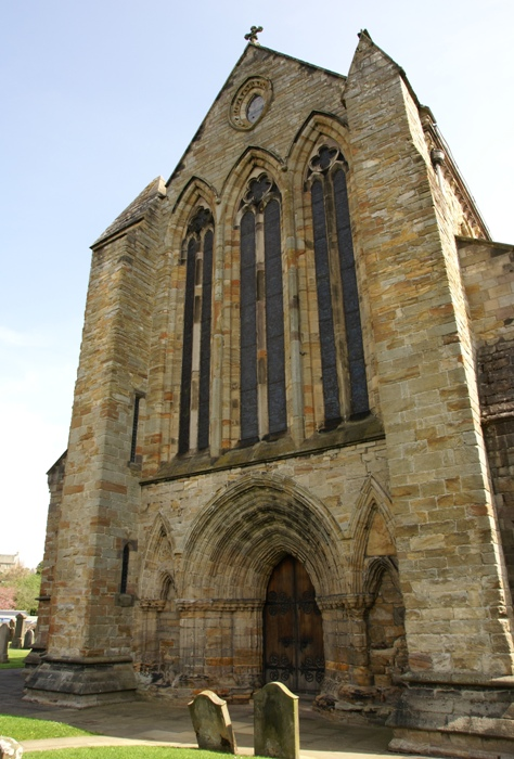 Dunblane Cathedral, Perth and Kinross, Scotland - from the west